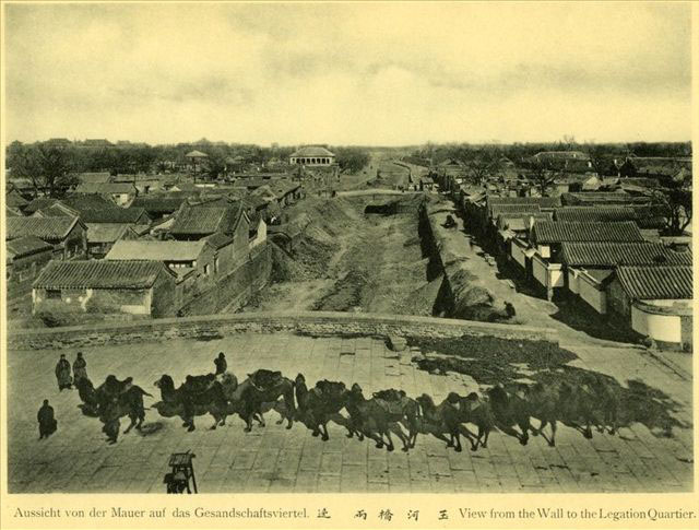 old photo from China 1900-1903, see the file's name for detail.